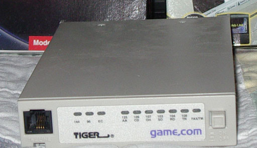 A photo I took tonight of my modem and the two packs that were required to get online. The items in the photo were destroyed less than 2 days later due to Hurricane Katrina. See the talk page for more information.